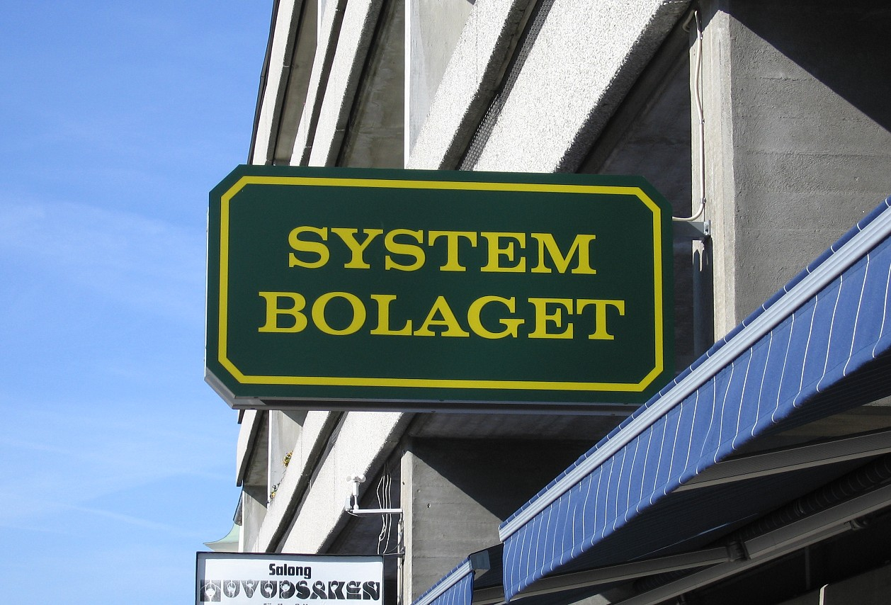 Sign of Systembolaget shop, Sweden.